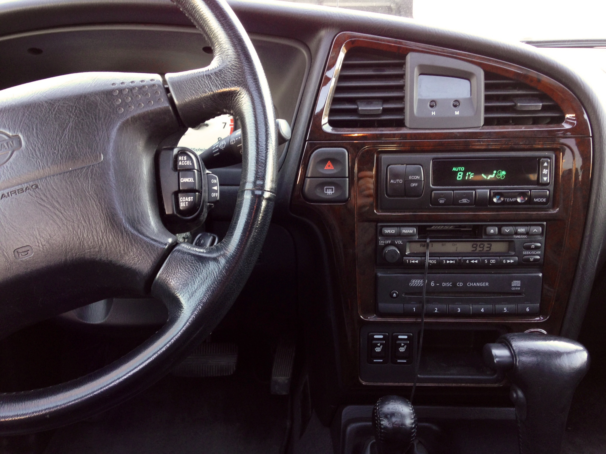 The interior of a 2001 Nissan Pathfinder LE